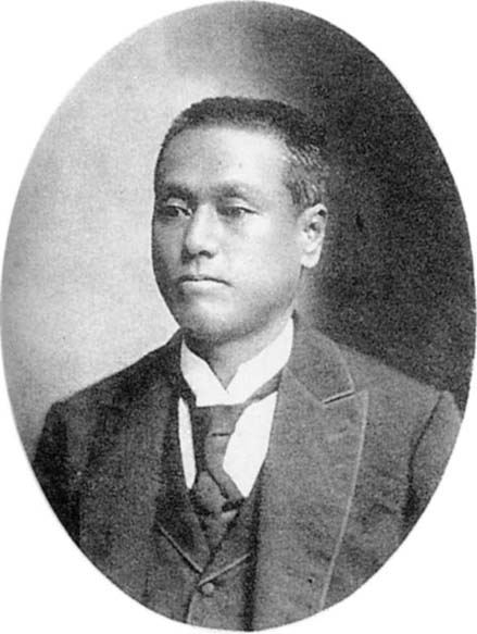 K. Yamagawa, Director of the College of Science.jpg.